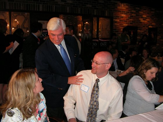 Sen. Chris Dodd, D-Conn., speaks May 3 in West Des Moines.